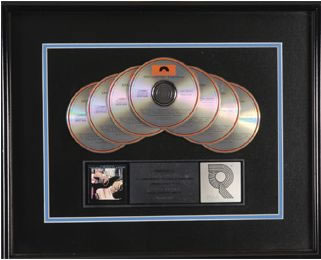 This is a seven-time platinum certification sales award for Eric Clapton's album "Timepieces The Best Of Eric Clapton". This commemorates the sale of over seven Million copies in the USA. This picture was taken and revised by myself in early 2003.